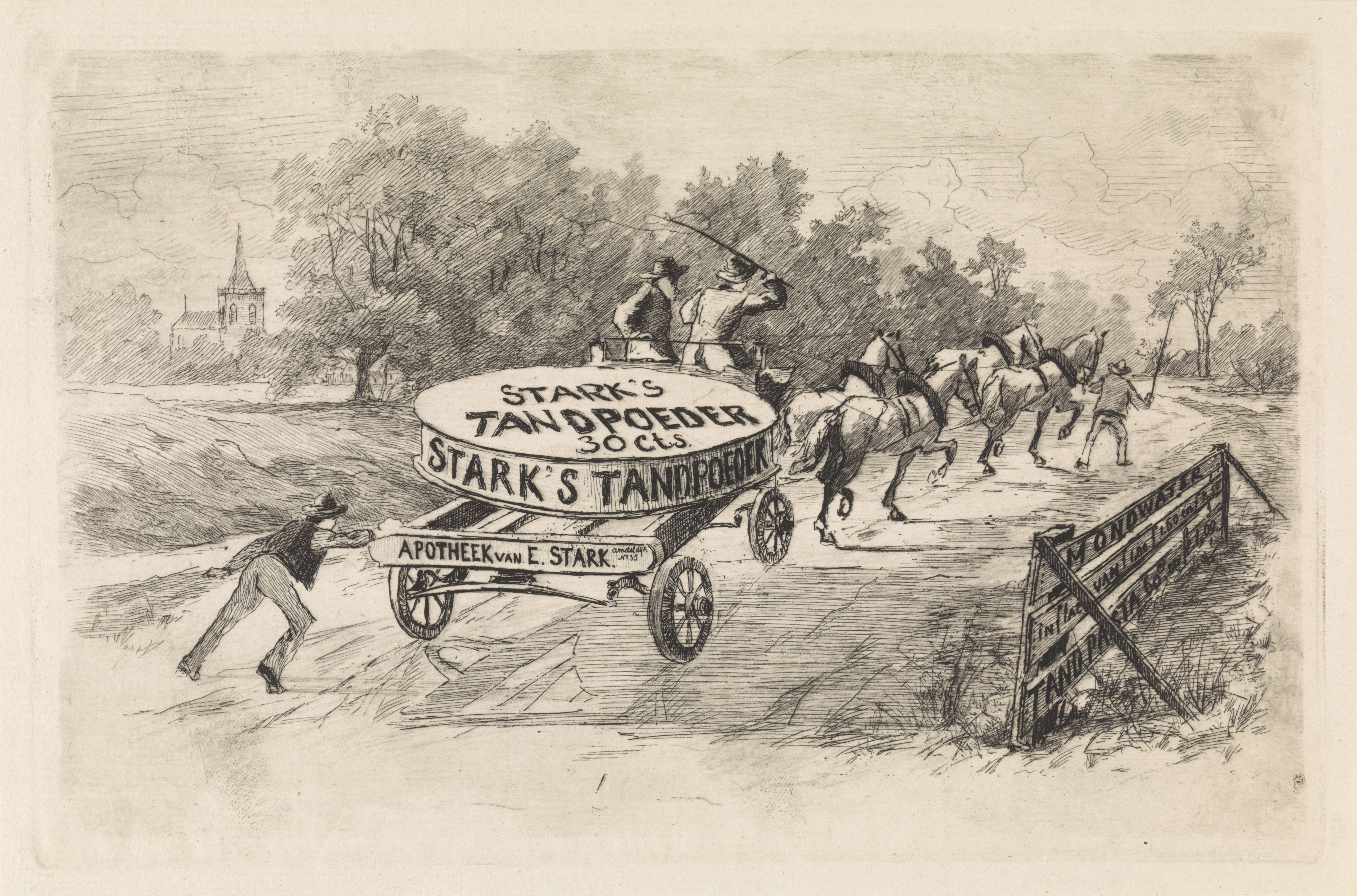 Reclame voor tandpoeder